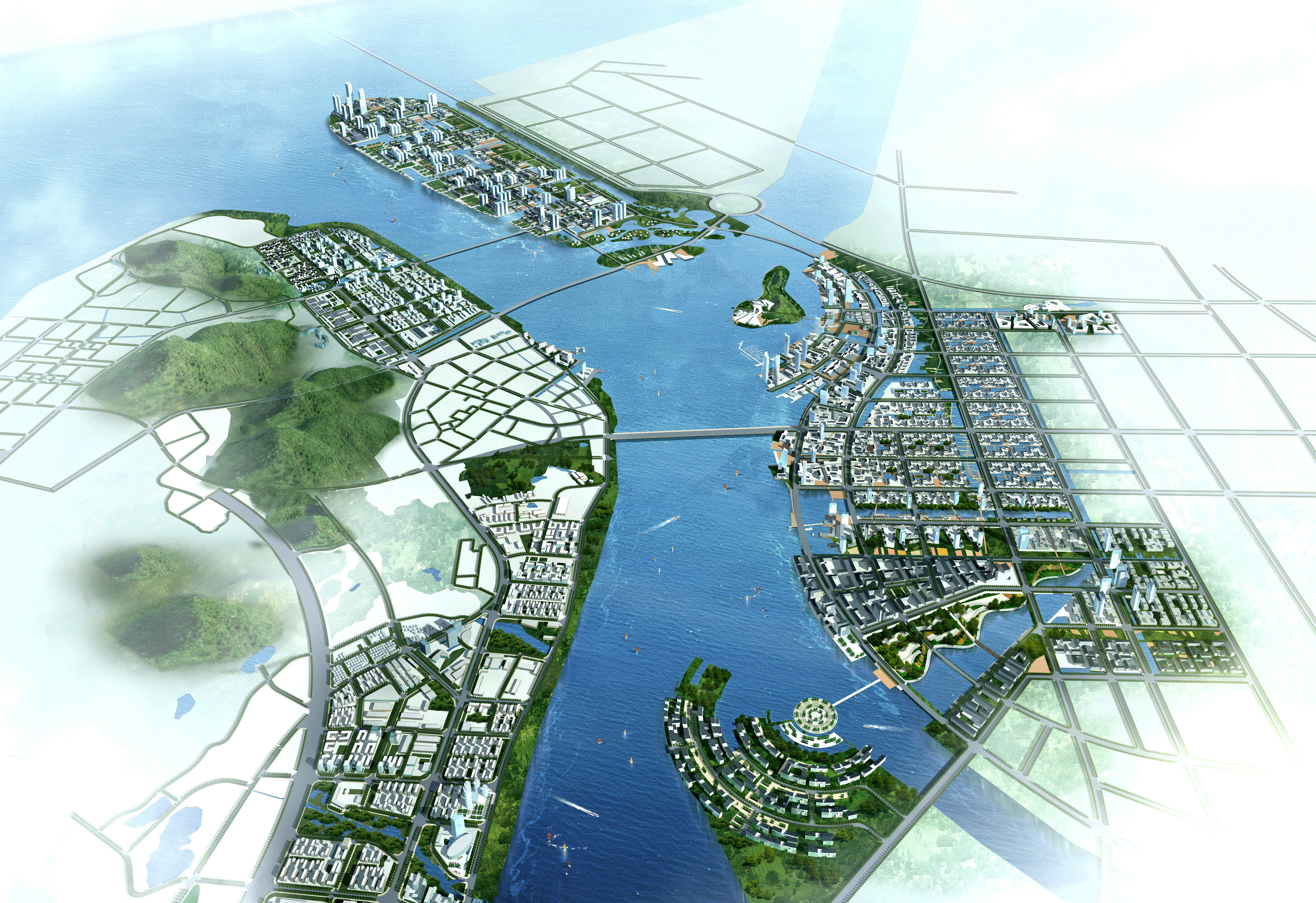 Smart City Nansha in Guangzhou